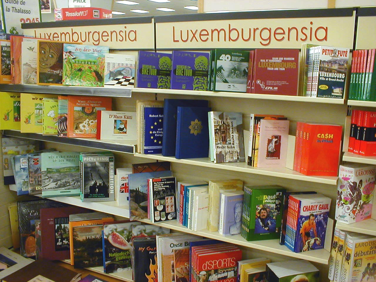 Books in Luxembourgish language at a bookshelve in a supermarket in Strassen Walon: lives e lussimbordjwès dins ene livreye d' on grand botike a Stråssen (portrait saetchî pa L. Mahin).